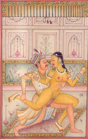 Kama Sutra Illustration